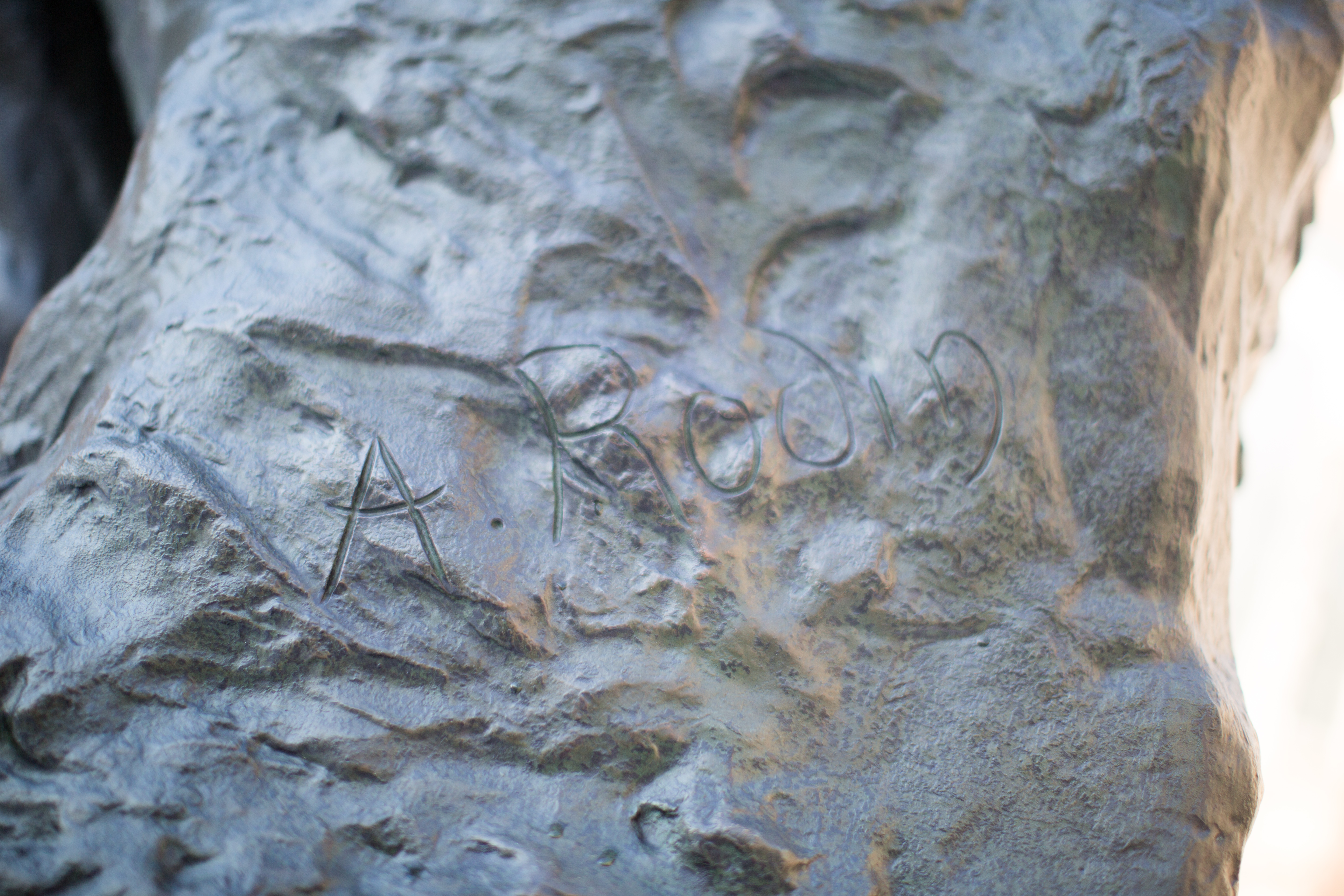 The Thinker NYC March 6, 2015